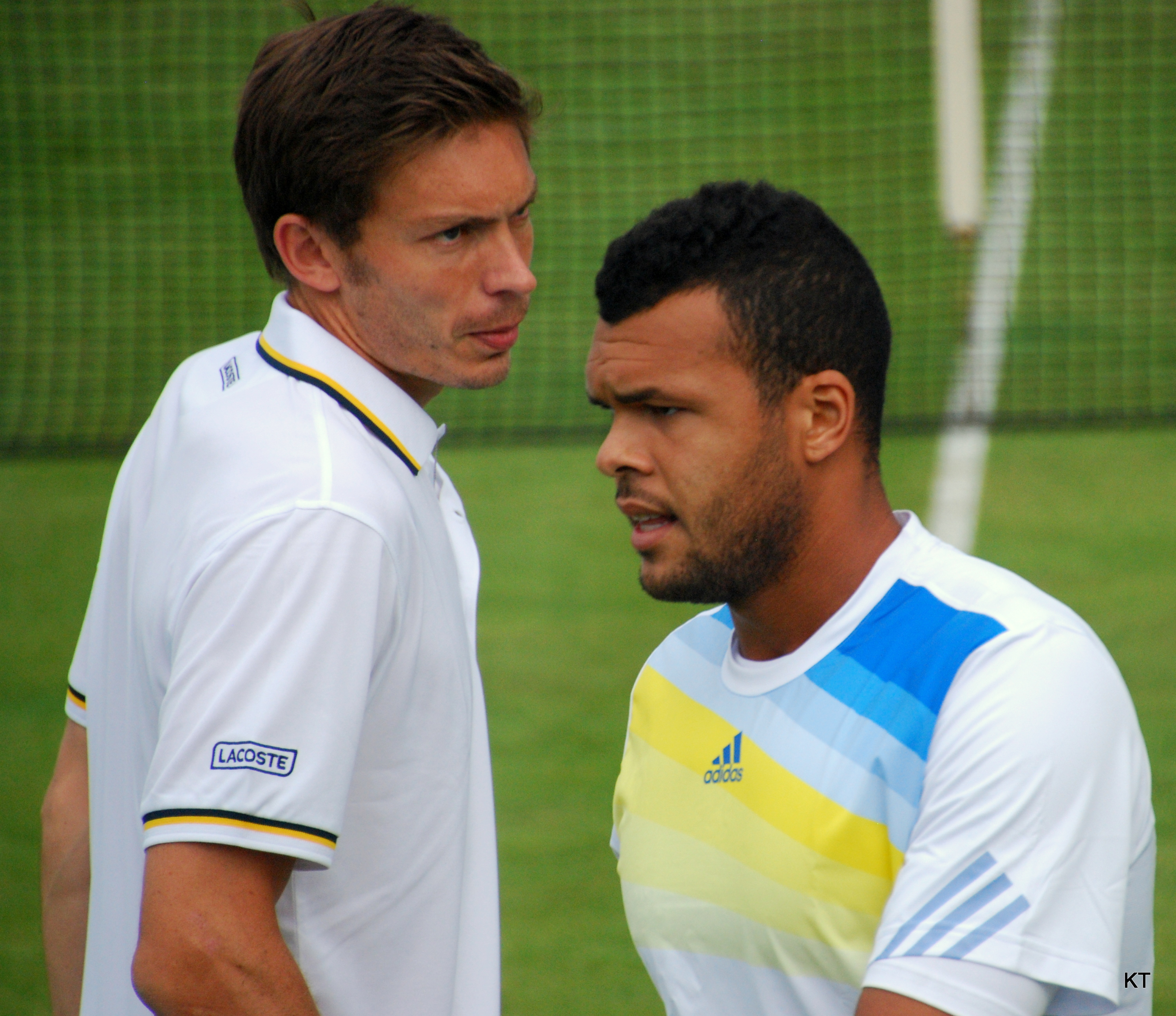 Nicolas Mahut & Jo-Wilfried Tsonga